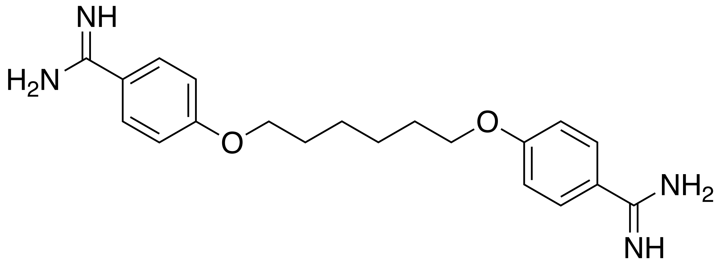 chemical structure of hexamidine